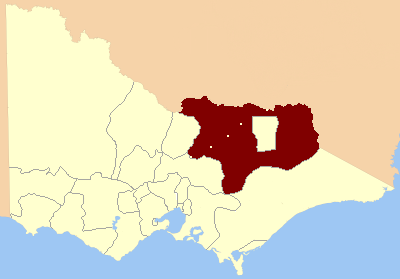 Electoral district of Murray, Victorian Legislative Assembly 1856